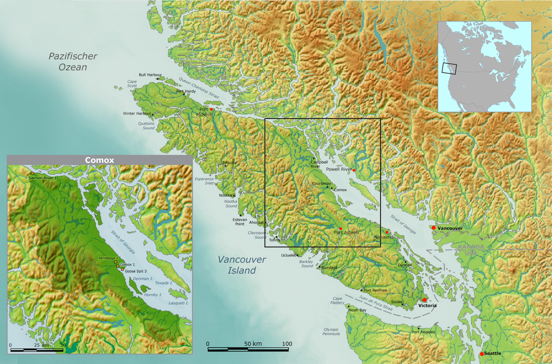 Map of Comox tribal territory.